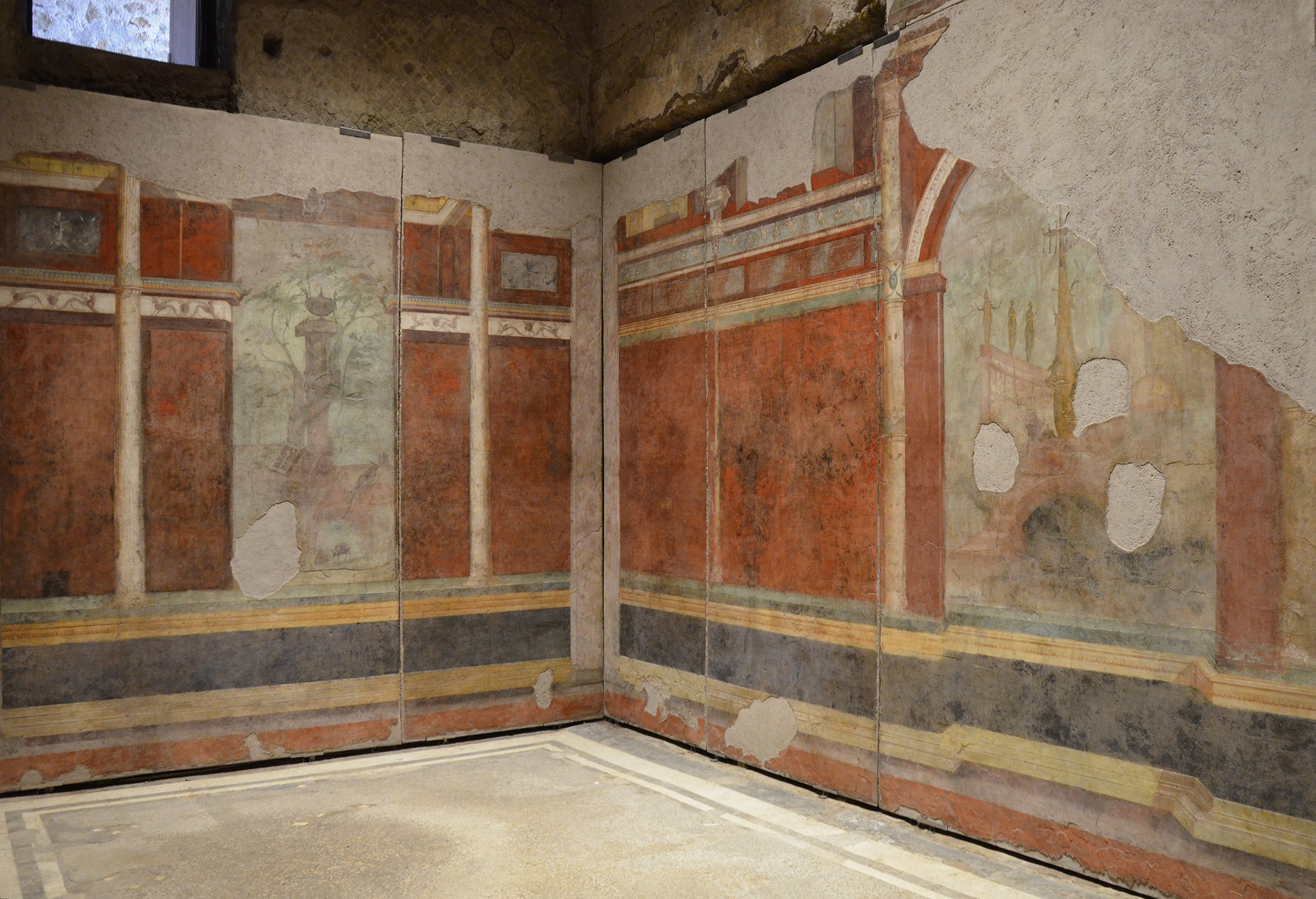 House of Livia, Palatine Hill, Rome